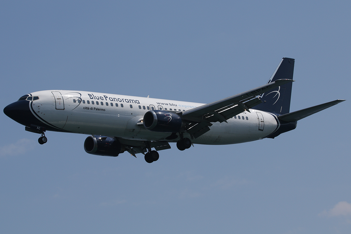 I-BPAC Blue Panorama Airlines Boeing 737-400